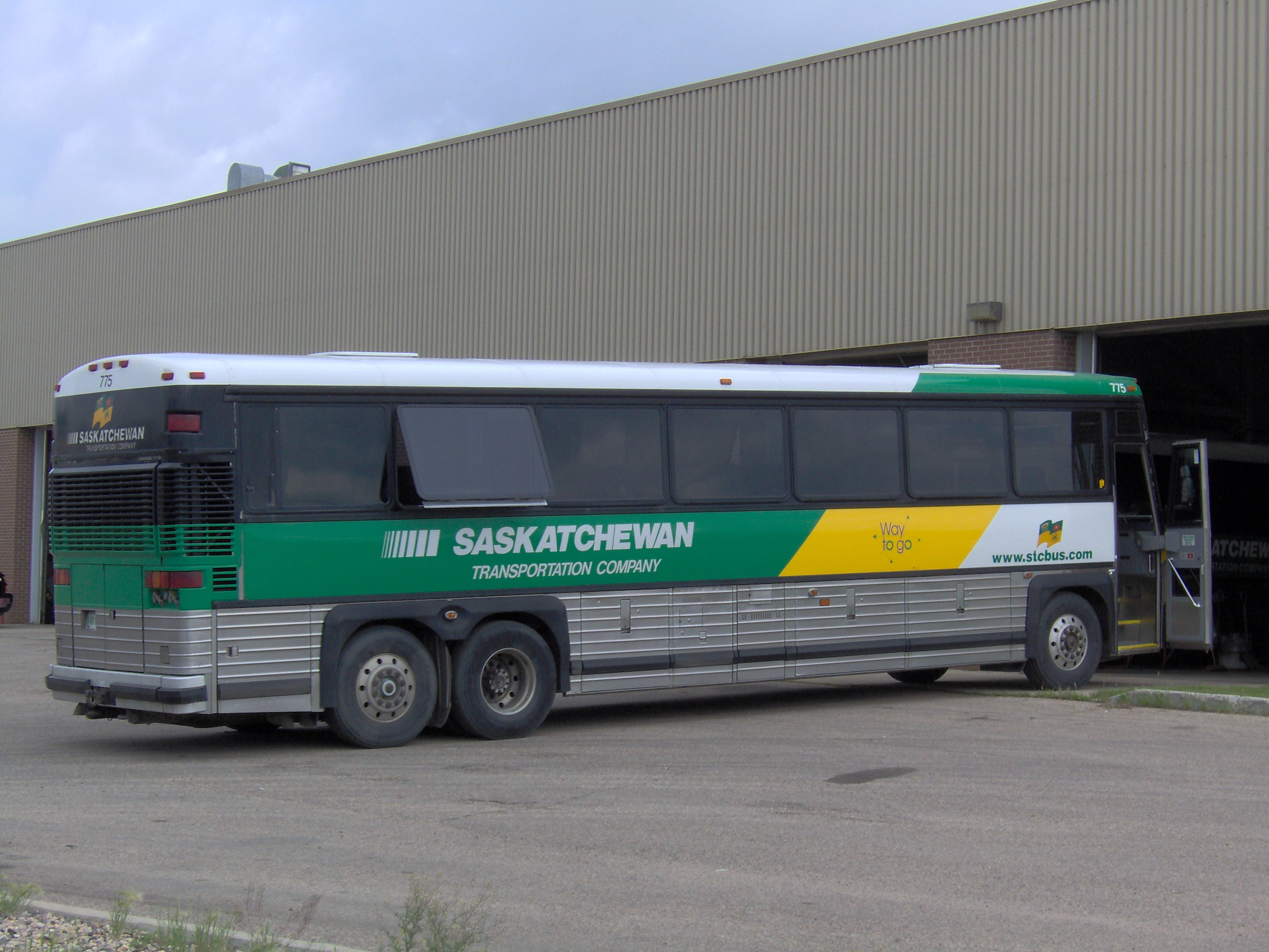 Saskatchewan Transportation Company bus at the Bus Service Center.